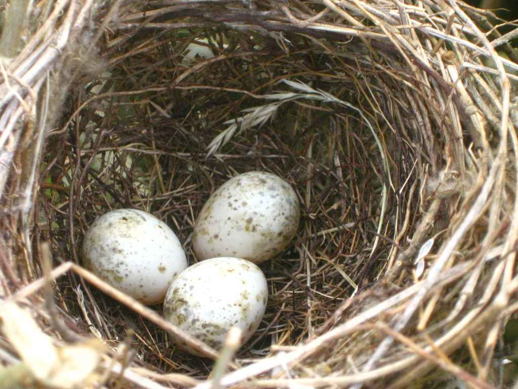 Eggs of the Lesser Whitethroat (Sylvia curruca) in a nest.